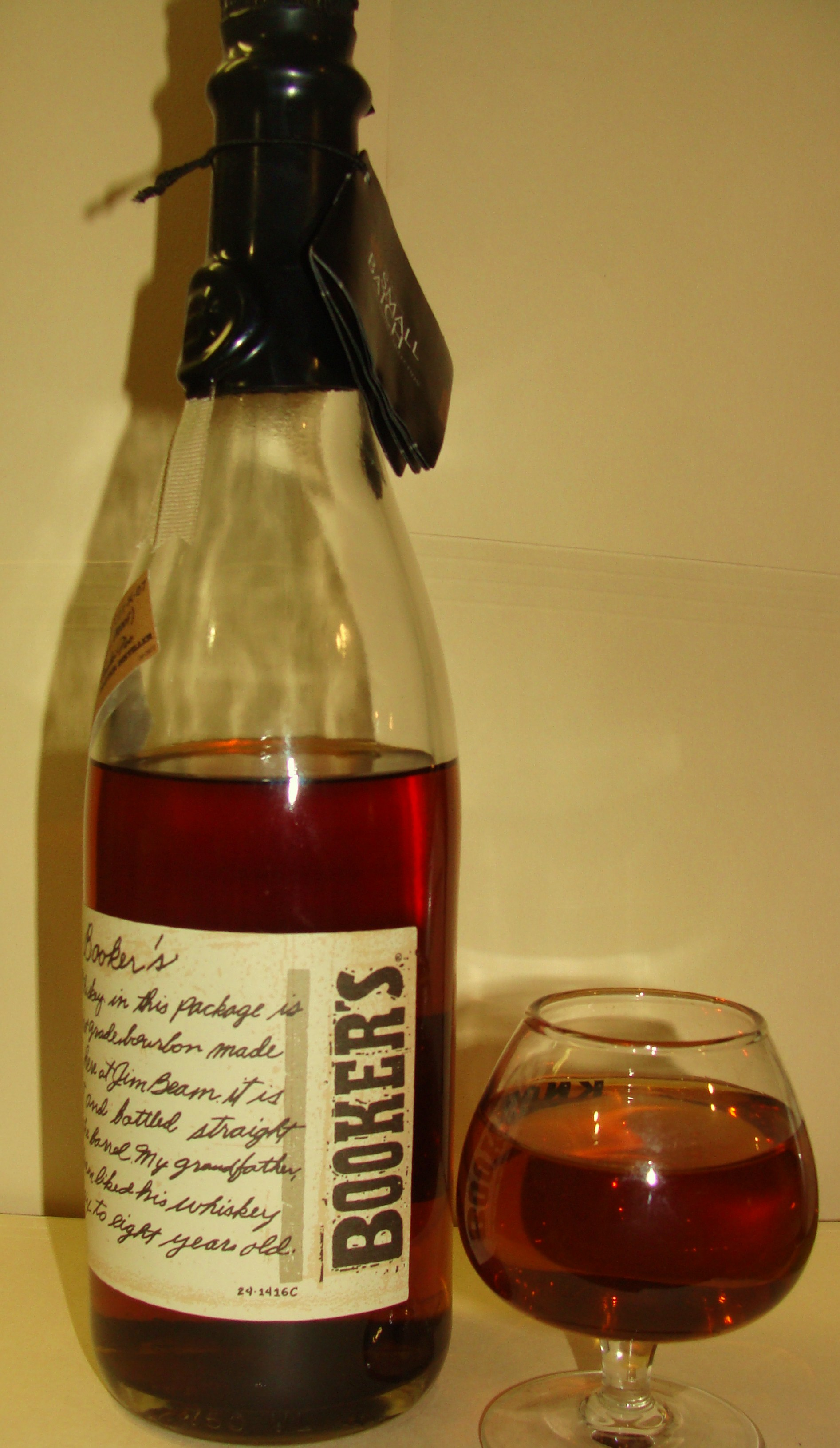 Bookers